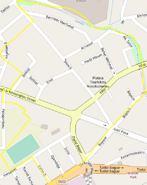 Map of Arnaoutogeitonia.